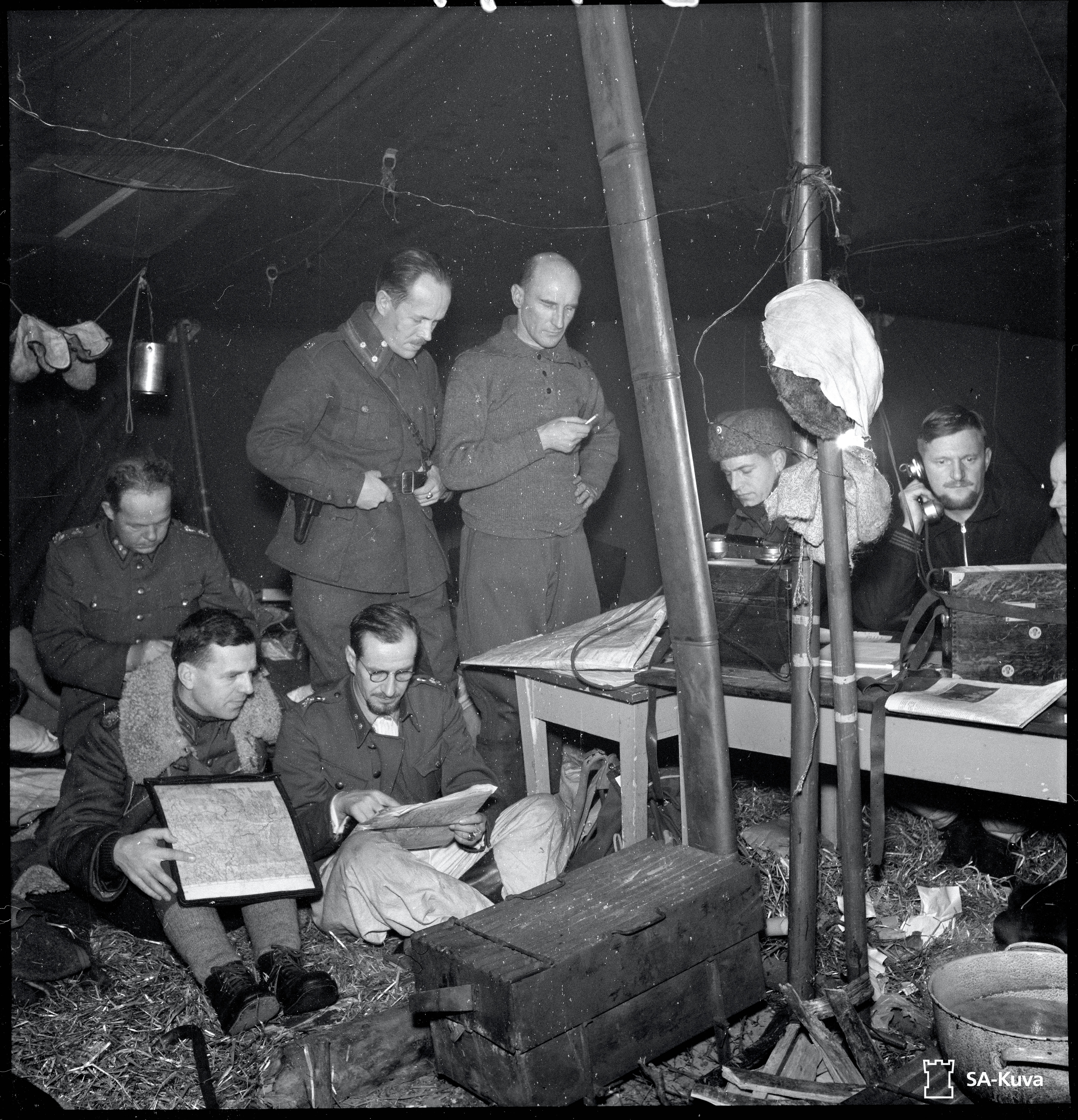 The staff of Colonel Hannu Hannuksela, the commander of Finnish 13th Infantry Division on 10th of January 1940 during the Winter War between Finland and Soviet Union. The meeting takes place in a tent near Lemetti, one of the scenes of the bloody battles of encirclement in Lagoda Carelia. The SA-Kuva.